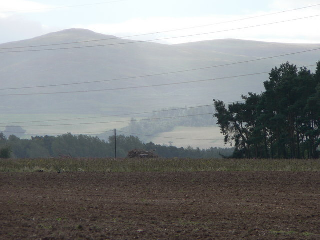 Farmland at Kimmerston Bog Drained farmland on the fertile Millfield Plain with Fenton Wood and Hedgehope hill in background